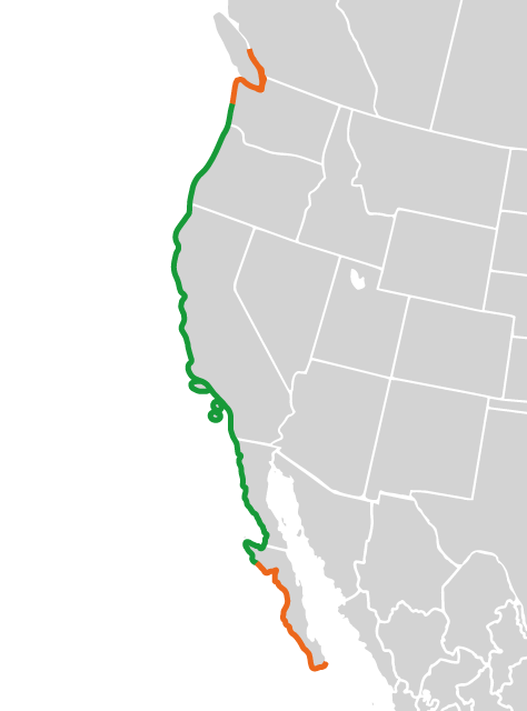 Distribution of the Western Gull (Larus occidentalis) in North America. Orange: Winter only. Green: Year-round.